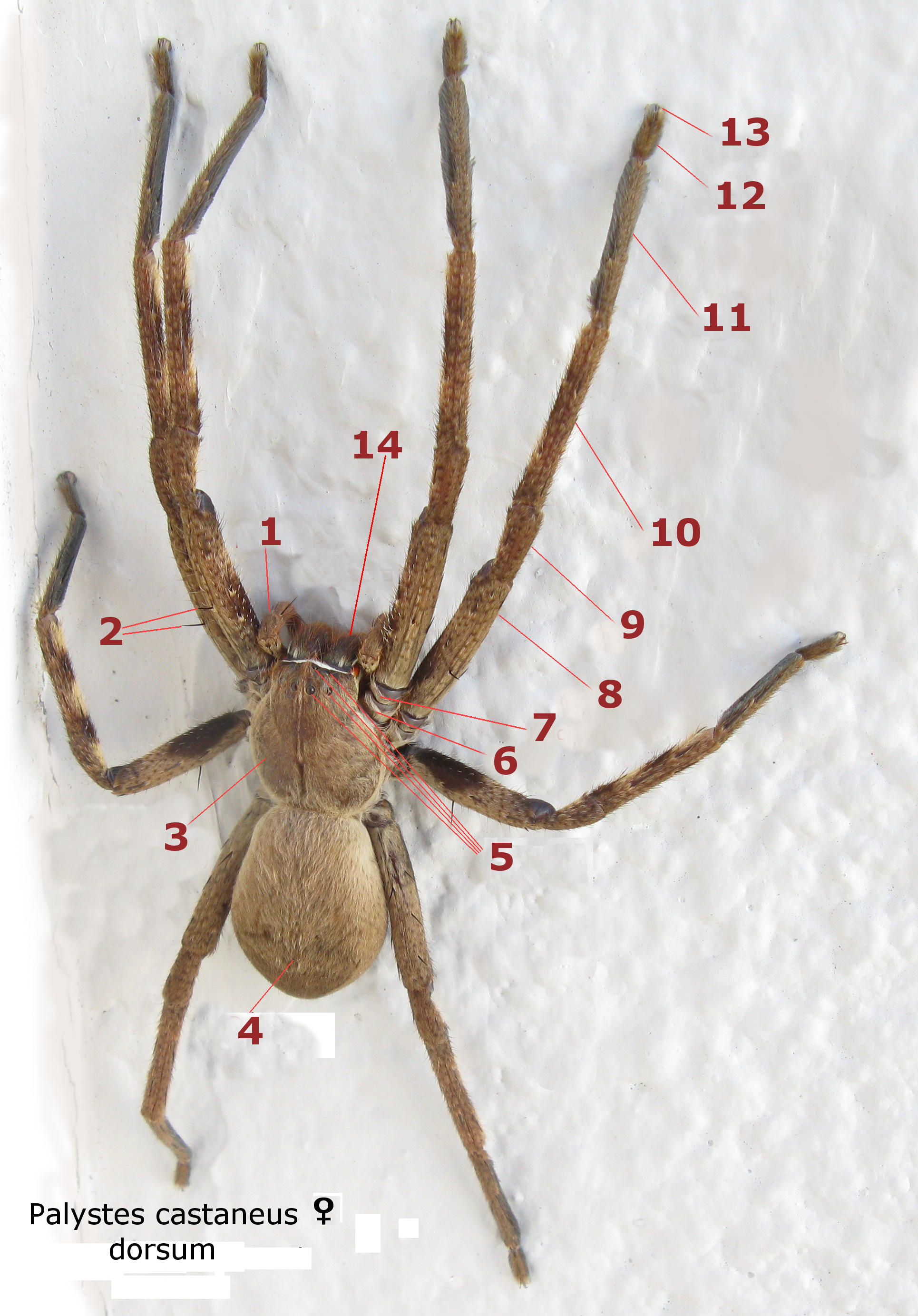 Palystes castaneus female dorsal aspect 1: pedipalp 2: trichobothria 3: carapace of prosoma (cephalothorax) 4: opisthosoma (abdomen) 5: eyes AL (anterior lateral) AM (anterior median) PL (posterior lateral PM (posterior median) Leg segments: 6: costa 7: trochanter 8: patella 9: tibia 10: metatarsus 11: tarsus 13: claw 14: chelicera .